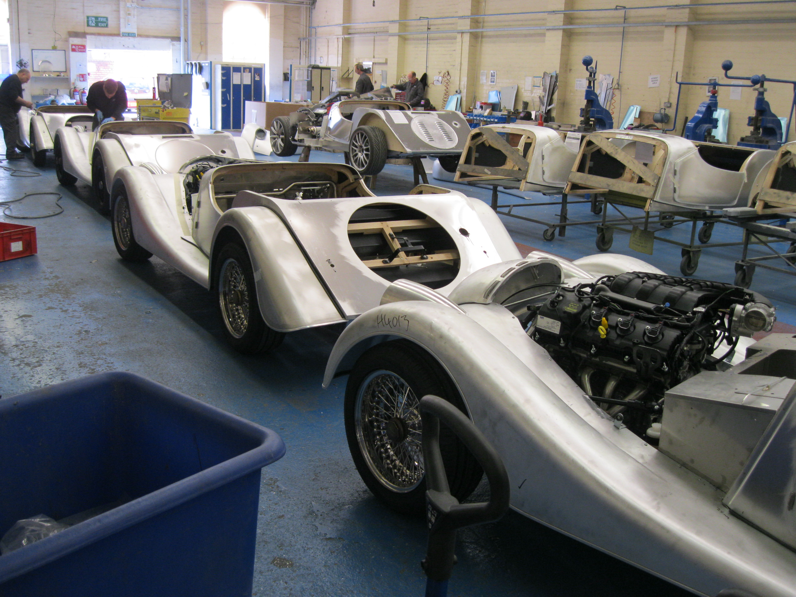 2012 Morgan during production